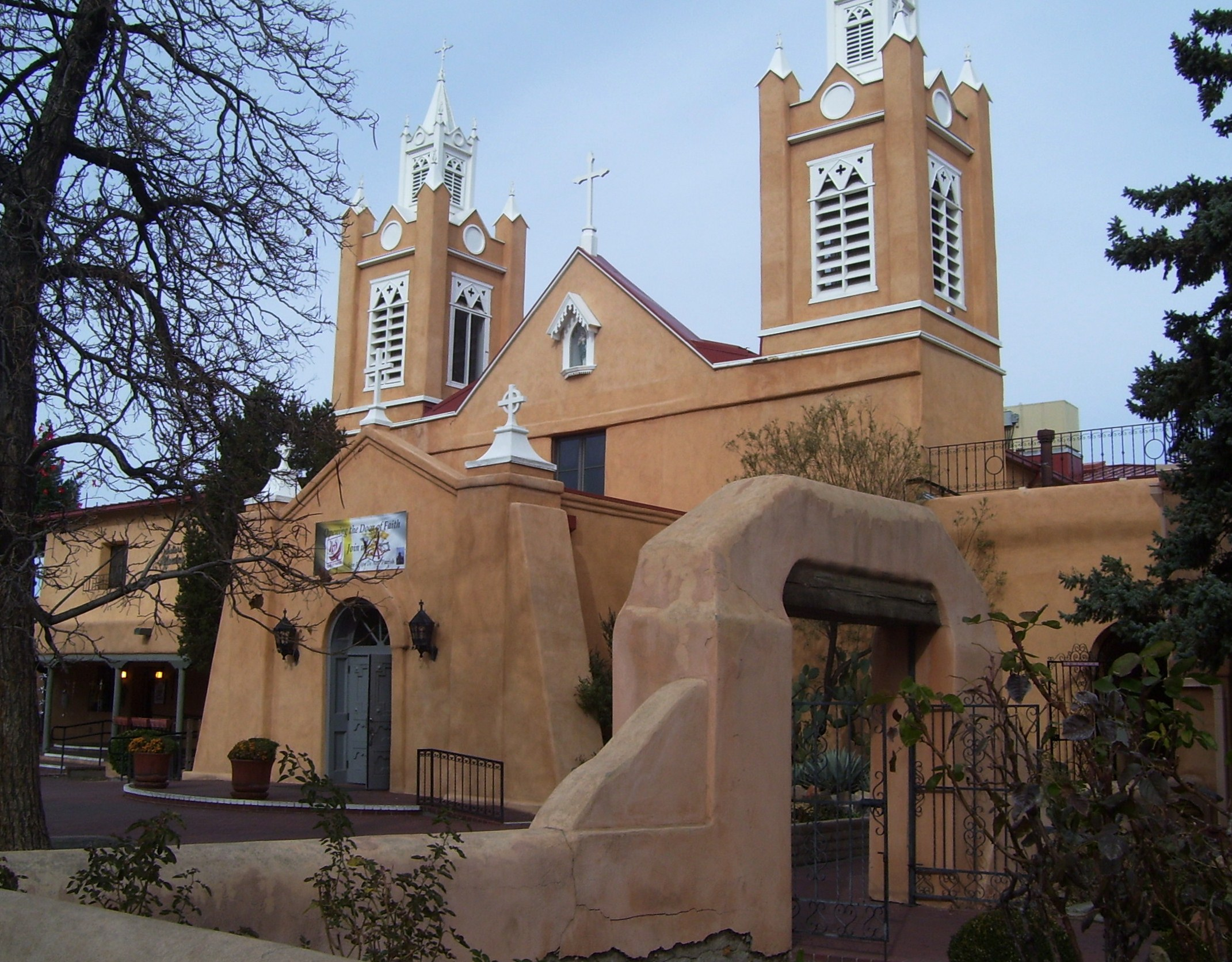 San Felipe de Neri Church, the mission church on the plaza of Albuquerque Old Town.